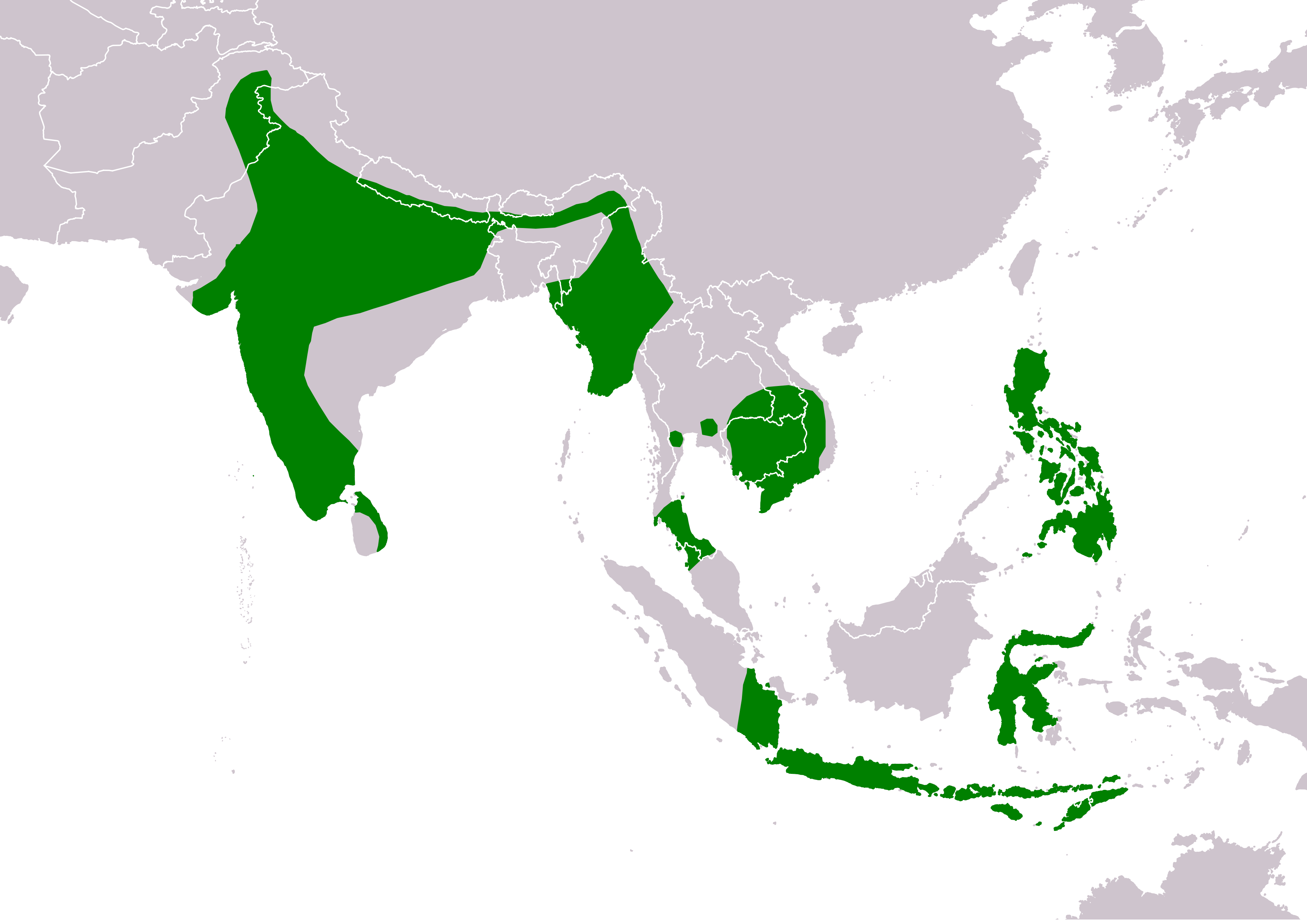 Map of asina woollyneck (Ciconia episcopus) according to IUCN version 2018.2 Legend:Extant, resident (#008000)